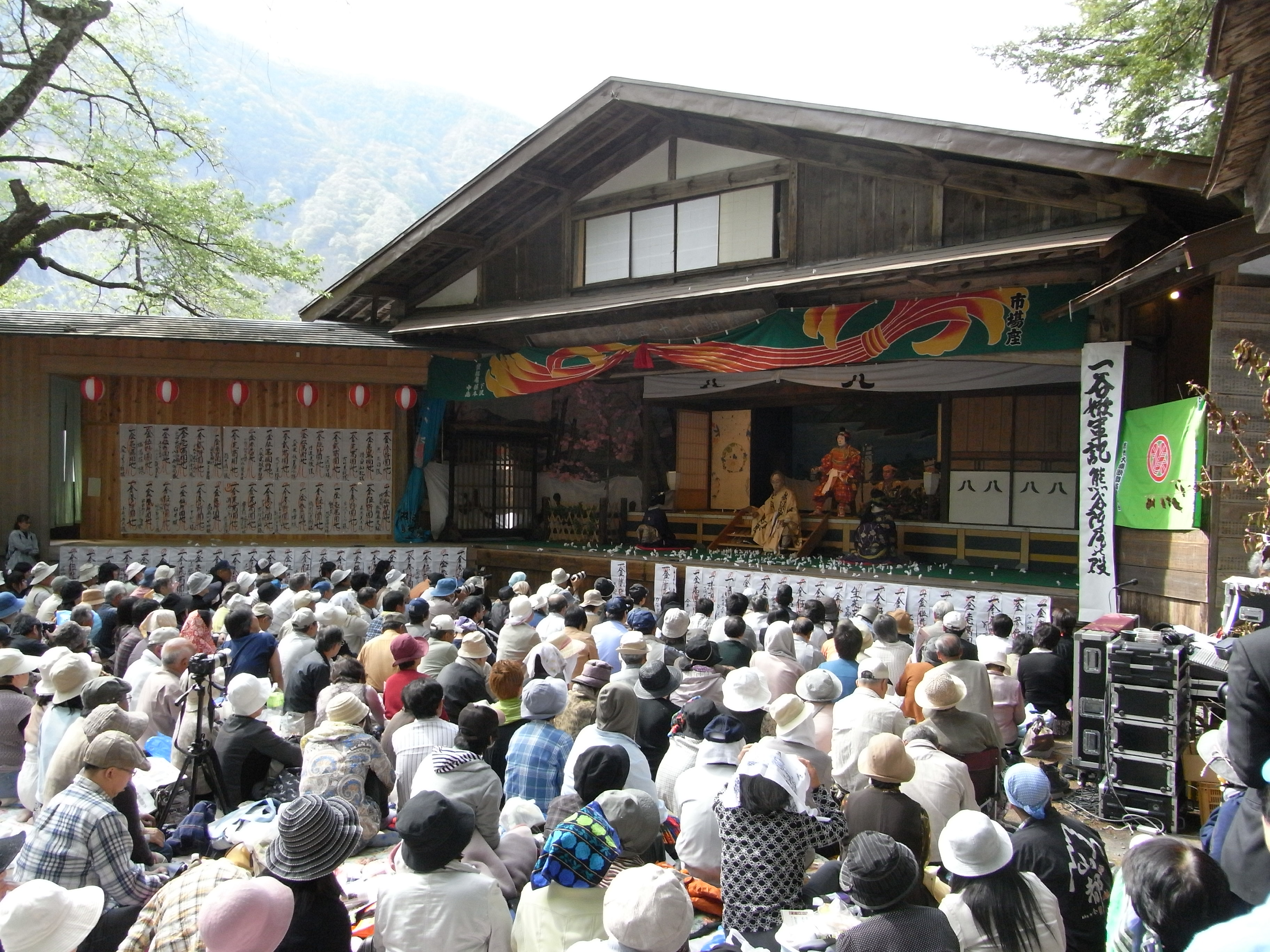 Ōshika Kabuki "Ichi-no-tani Futaba Gunki" at Daiseki-jinja Shrine in Ōshika, Nagano.